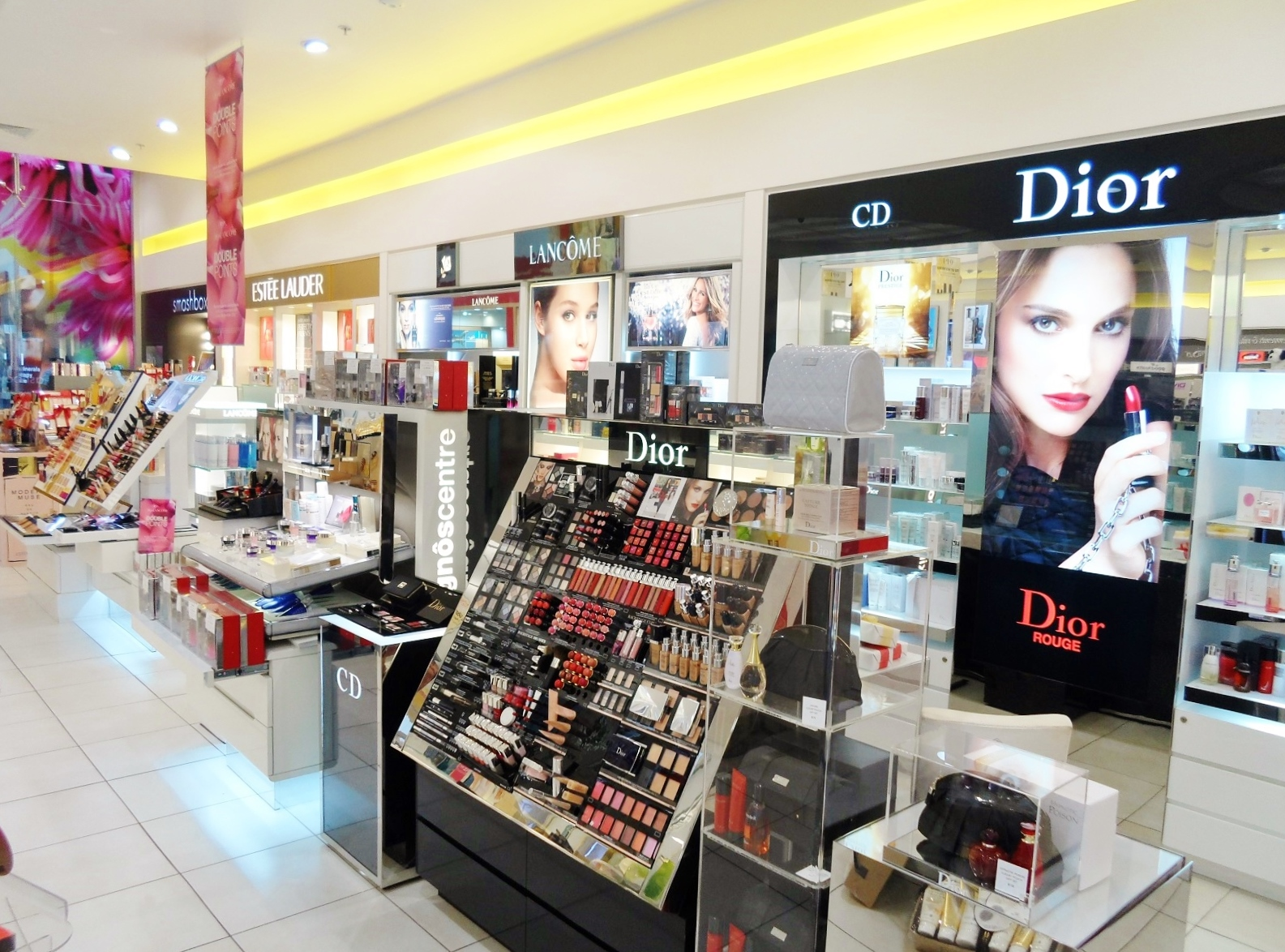 Serviced cosmetics at New Zealand retail pharmacy Life Pharmacy at Westfield Albany shopping centre in Albany on the North Shore of Auckland, New Zealand in 2013.